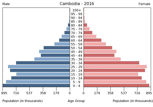 The population pyramid of Cambodia illustrates the age and sex structure of population and may provide insights about political and social stability, as well as economic development. The population is distributed along the horizontal axis, with males shown on the left and females on the right. The male and female populations are broken down into 5-year age groups represented as horizontal bars along the vertical axis, with the youngest age groups at the bottom and the oldest at the top. The shape of the population pyramid gradually evolves over time based on fertility, mortality, and international migration trends.